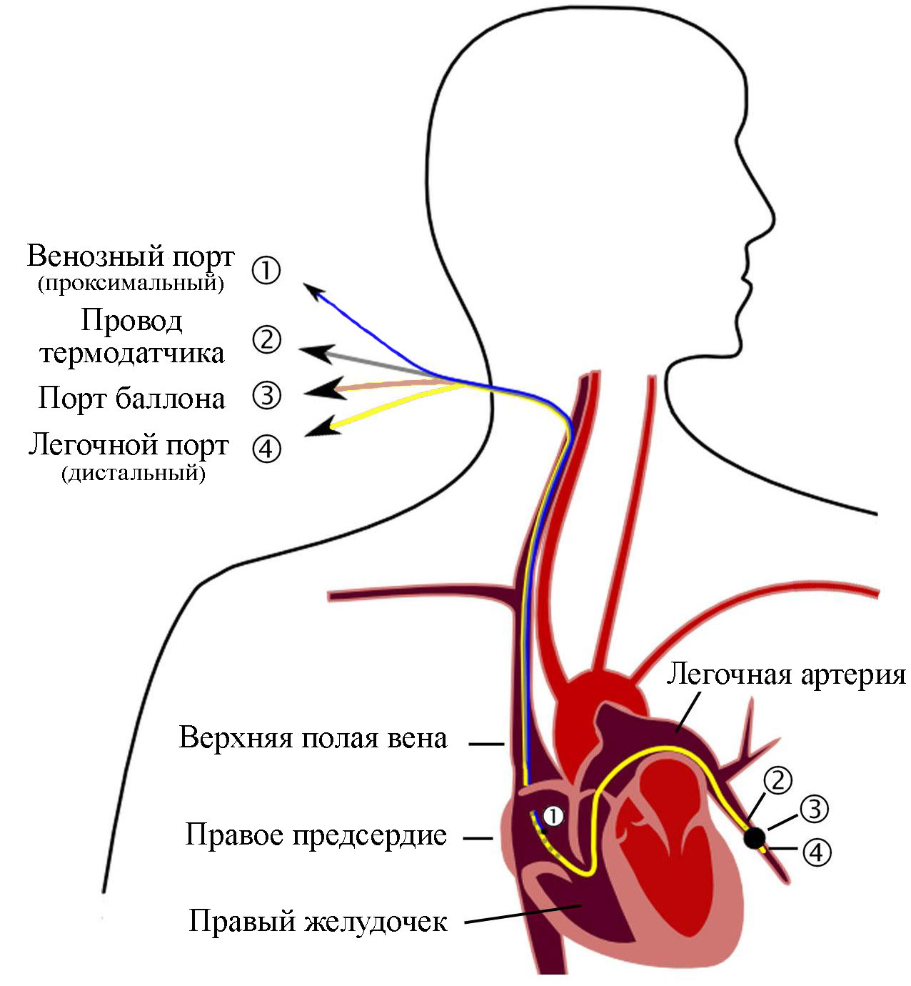 Swan-Ganz catheter